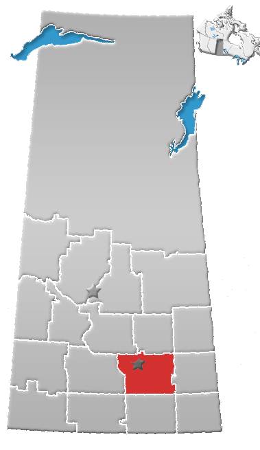 Saskatchewan census area No. 06